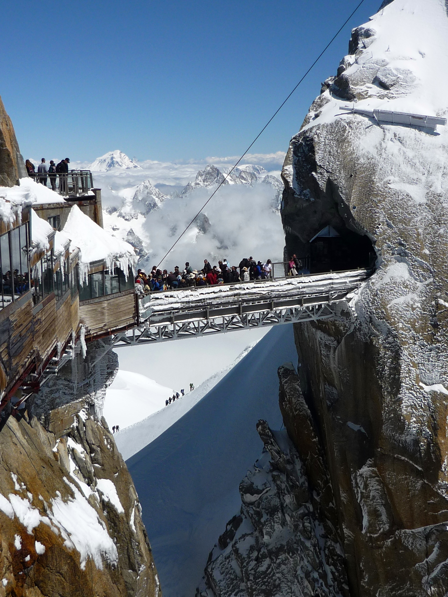 Pedestrian bridge between the two peaks of the aiguille du Midi, Chamonix, Haute-Savoie, France